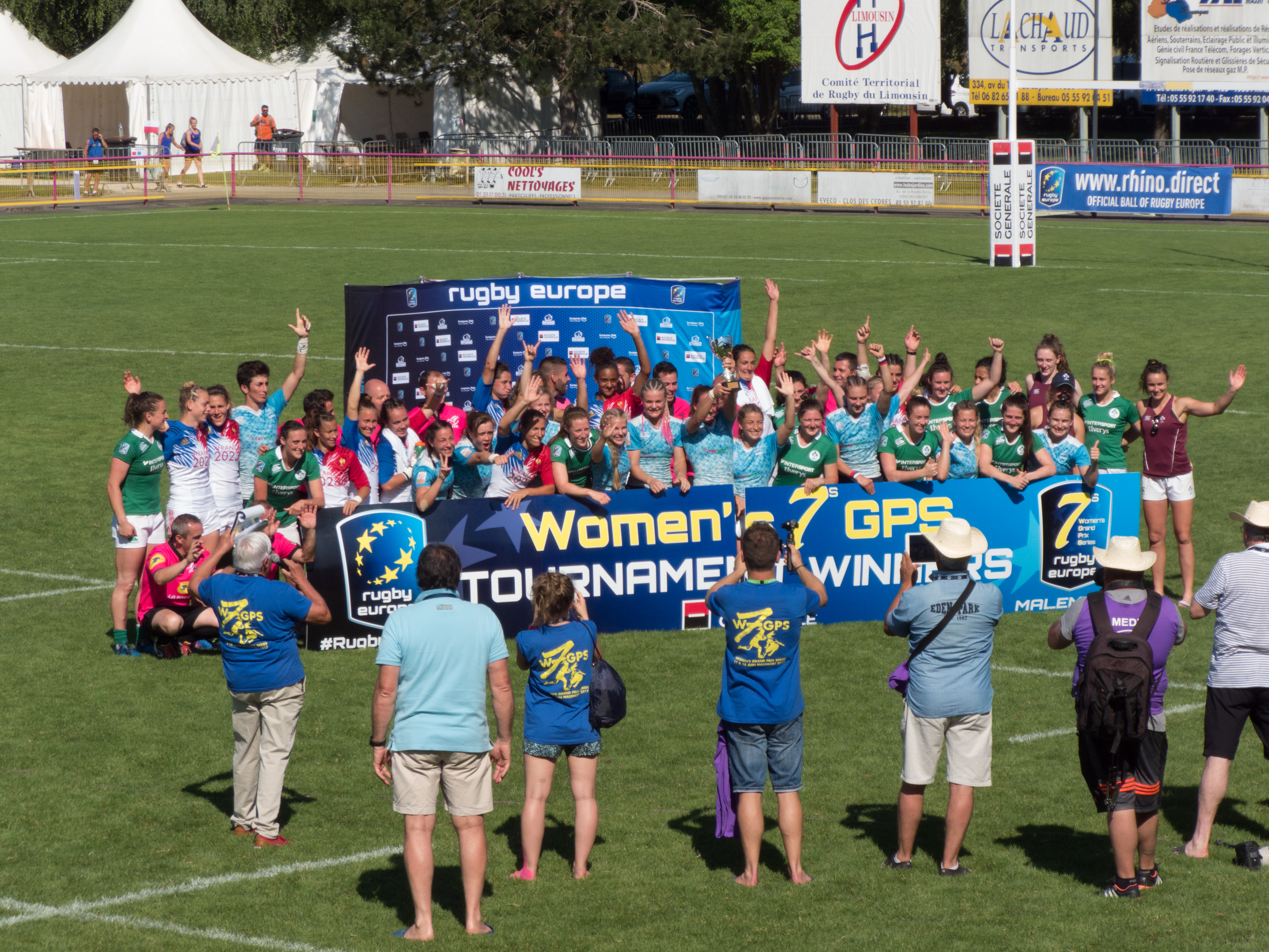 Malemort Sevens 2017 — 18 June 2017, stade Raymond-Faucher. Match between: Russia — France